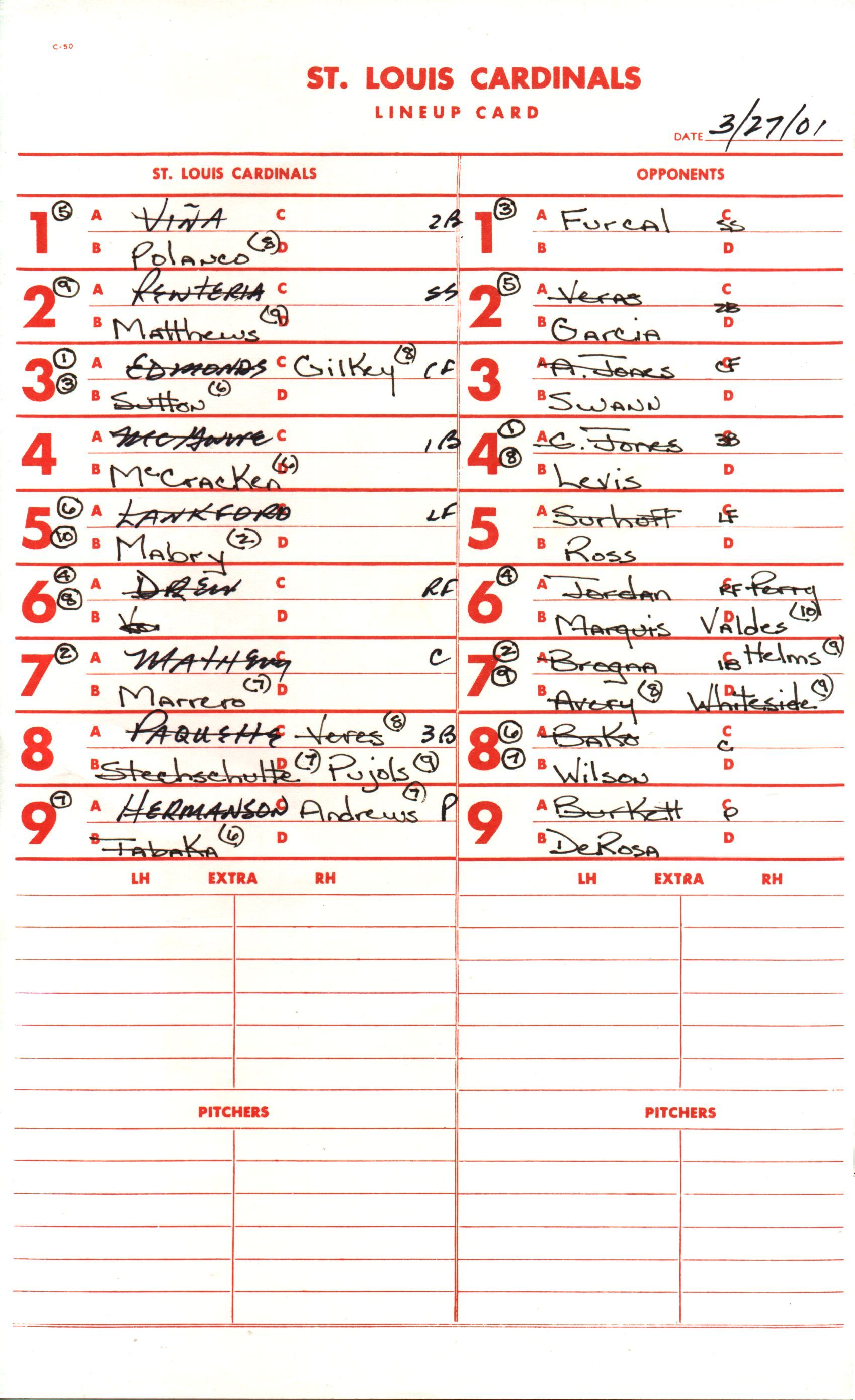 March 27, 2001 Cardinals vs. Braves spring training game lineup card. Albert Pujols pinch-hits in the top of the 9th and hits a solo home run to tie the game 5-5: Shortly before spring training ended, the Cardinals played Atlanta at the Braves' complex in Disneyworld in Orlando. La Russa didn't have Pujols in the lineup that day, instead making sure that the regulars got in some final at-bats before the regular season began. Mark McGwire started at first, took his three cuts, then headed for the shower and stood behind La Russa in the dugout runway in his street clothes. The game was tied in the ninth when La Russa called on Pujols to pinch-hit against Matt Whiteside. Amid all the curiosity about his immediate future, Pujols didn't just hit the ball, he hit it over the scoreboard in center field. From behind, La Russa suddenly felt McGwire's huge hand smacking him across the back, a little bit like being hit with the wing of a 747. "Dude, I told you, he's on the club!" Buzz Bissinger, Three Nights in August, pp. 146-147, ISBN 0618405445